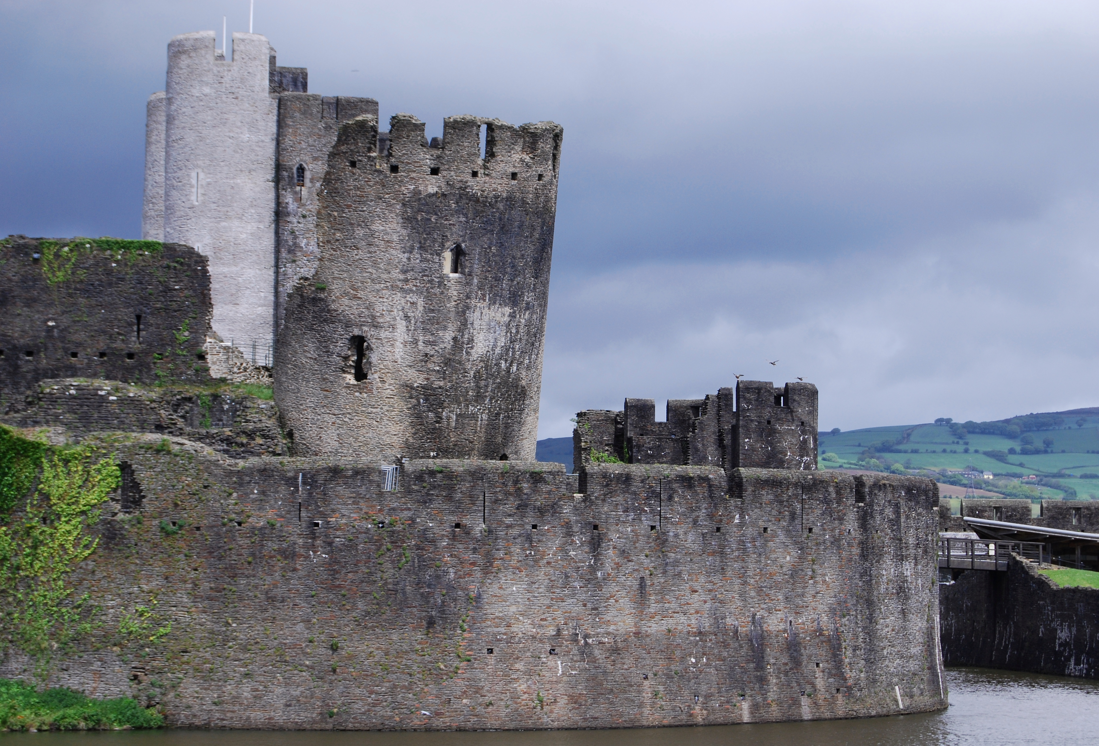 Detail of Caerphilly Castle